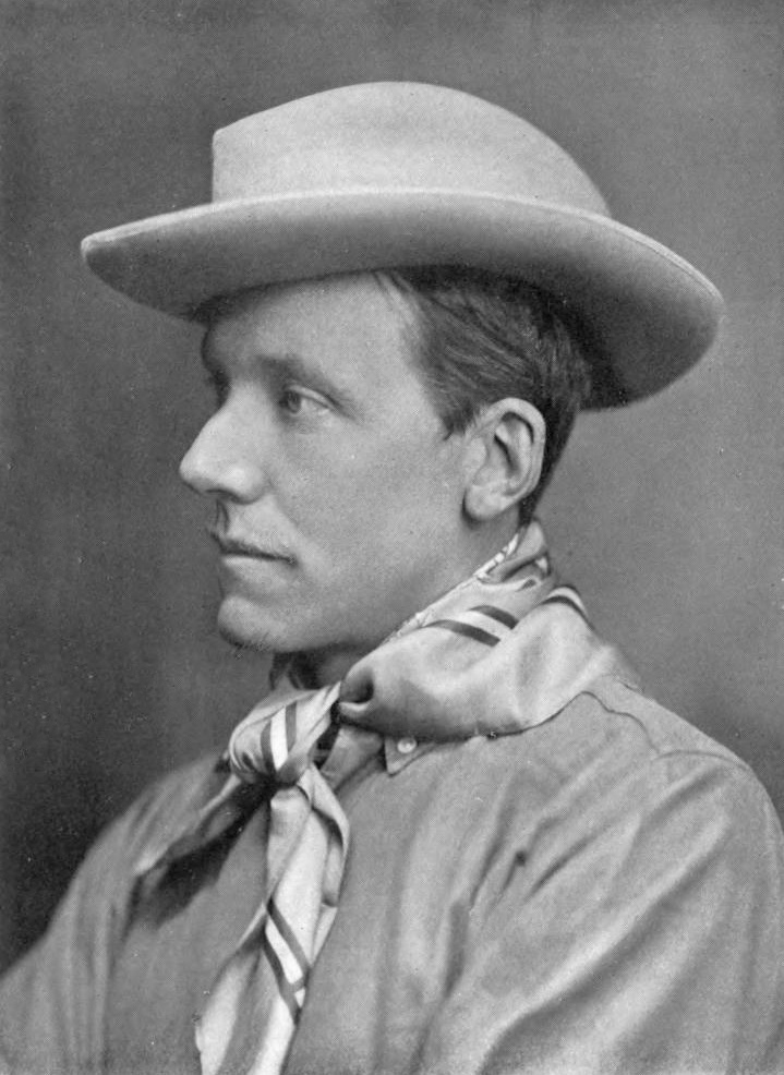 Picture of Hesketh Hesketh-Prichard